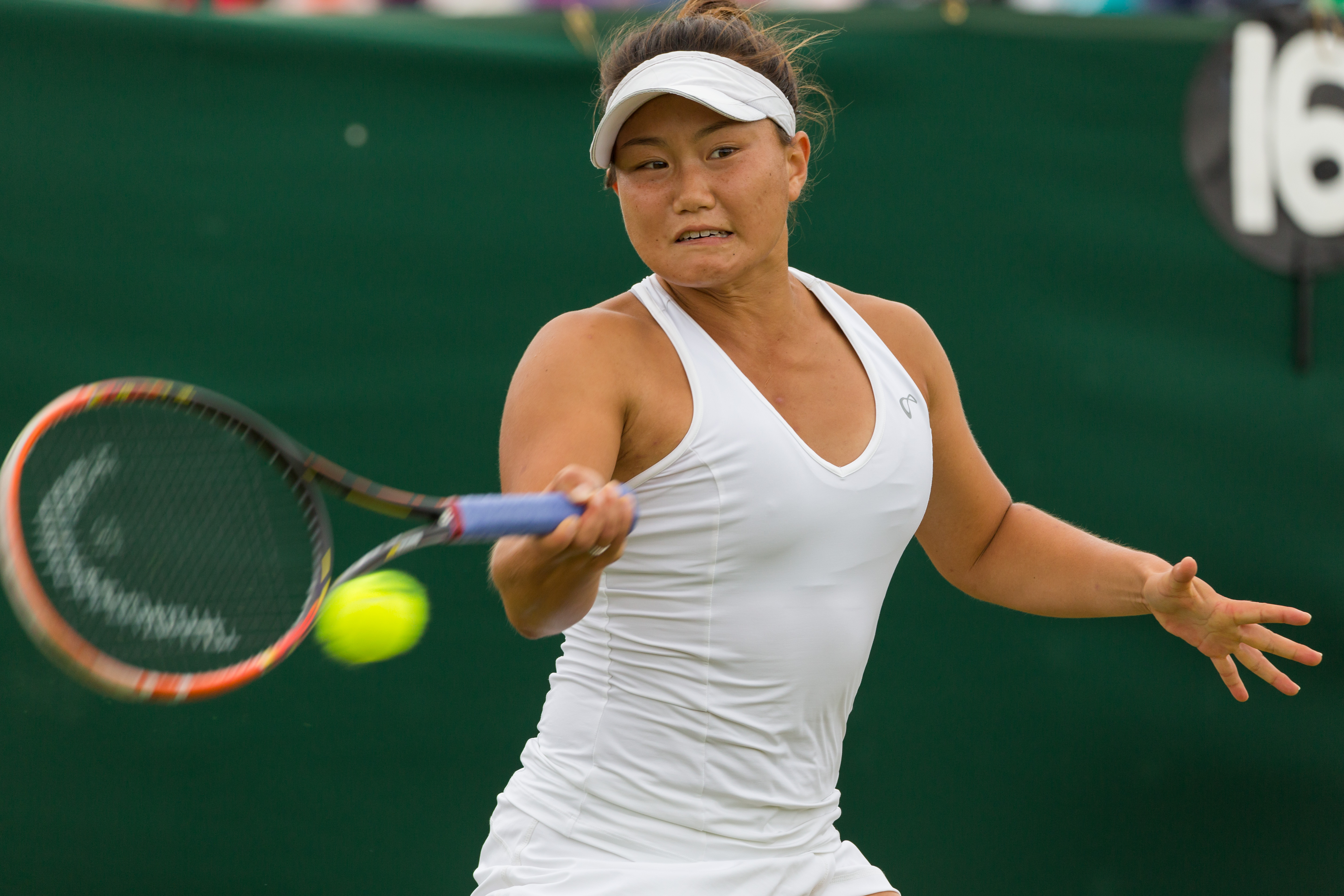 Grace Min competing in the first round of the 2015 Wimbledon Qualifying Tournament at the Bank of England Sports Grounds in Roehampton, England. The winners of three rounds of competition qualify for the main draw of Wimbledon the following week.